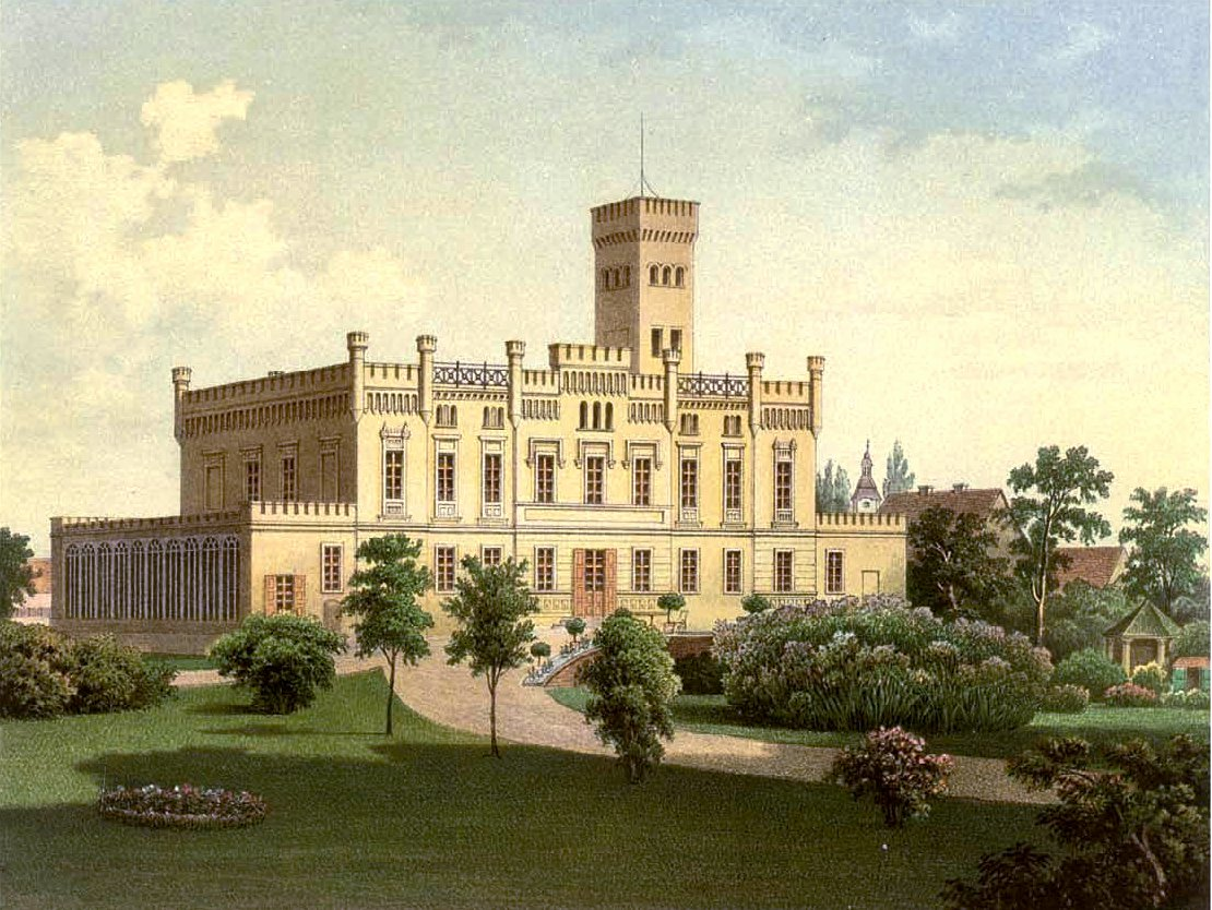 Castle in Kamienna